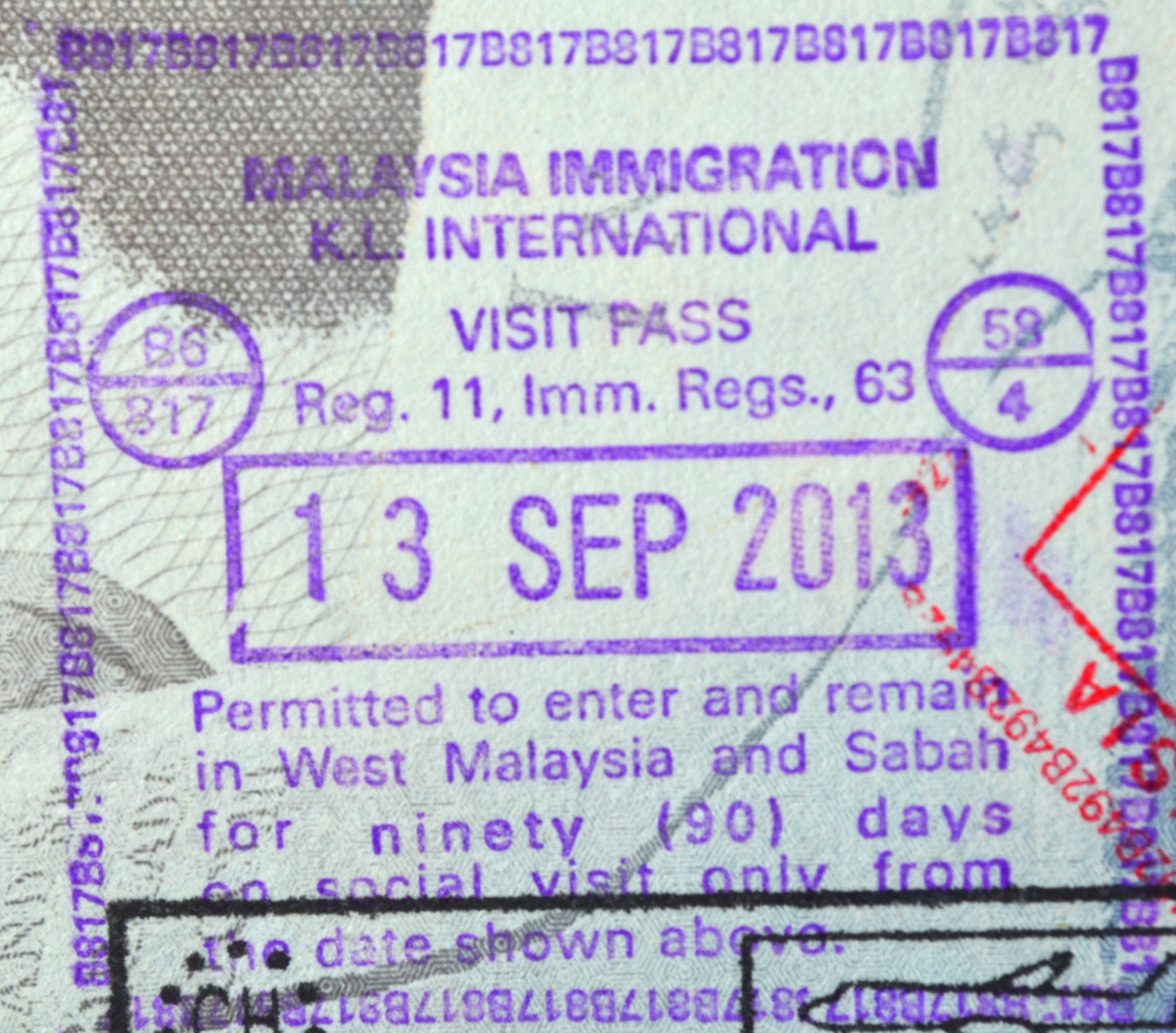 PASSPORT STAMP